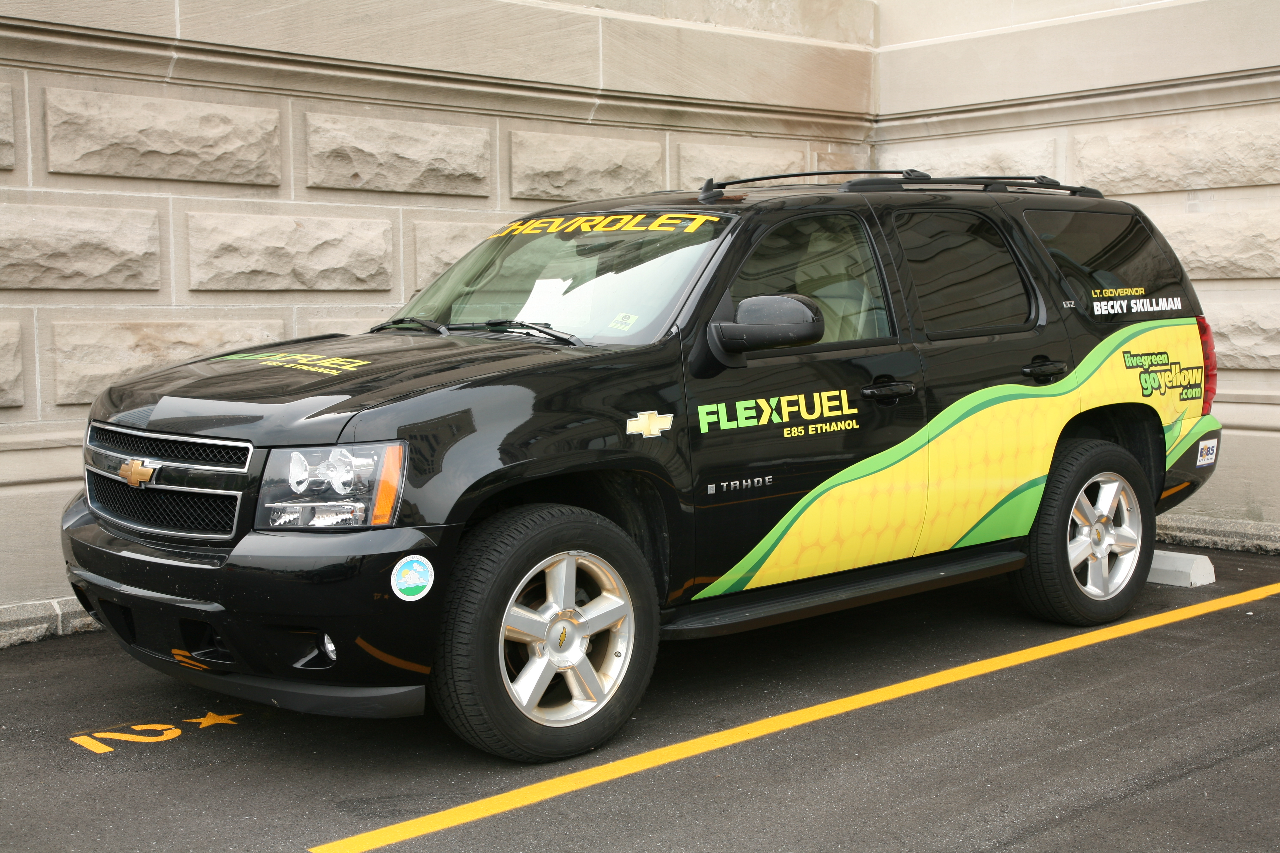 Flexfuel Chevy Tahoe, allows a maximum of 85% ethanol in the fuel mixture